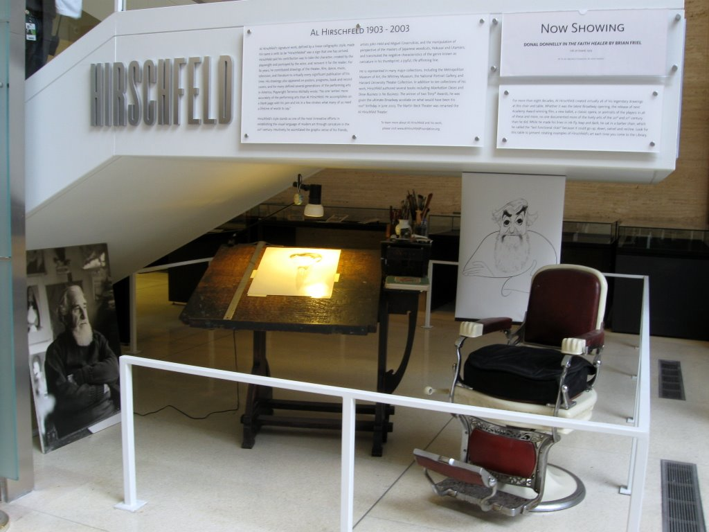 Al Hirschfeld's desk, lamp and chair on display in the lobby of the New York Public Library for the Performing Arts